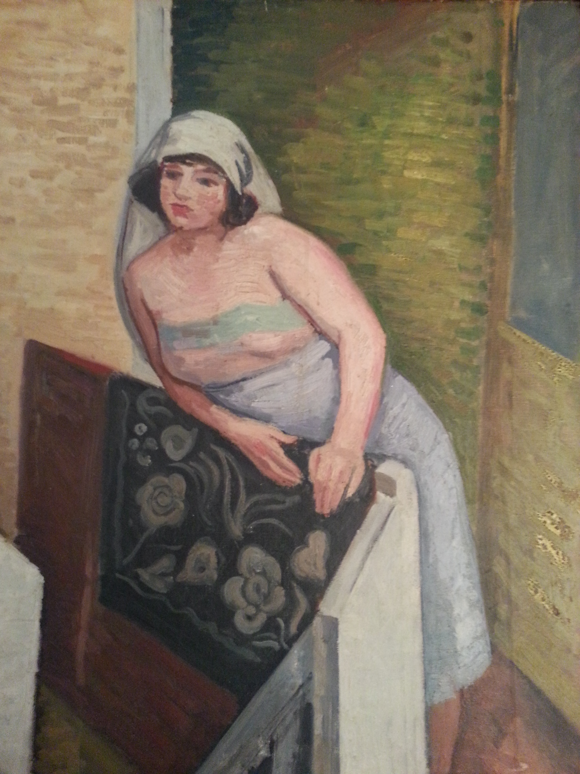 Painting from the French Jean Marchand, woman in the staircase cubist influence